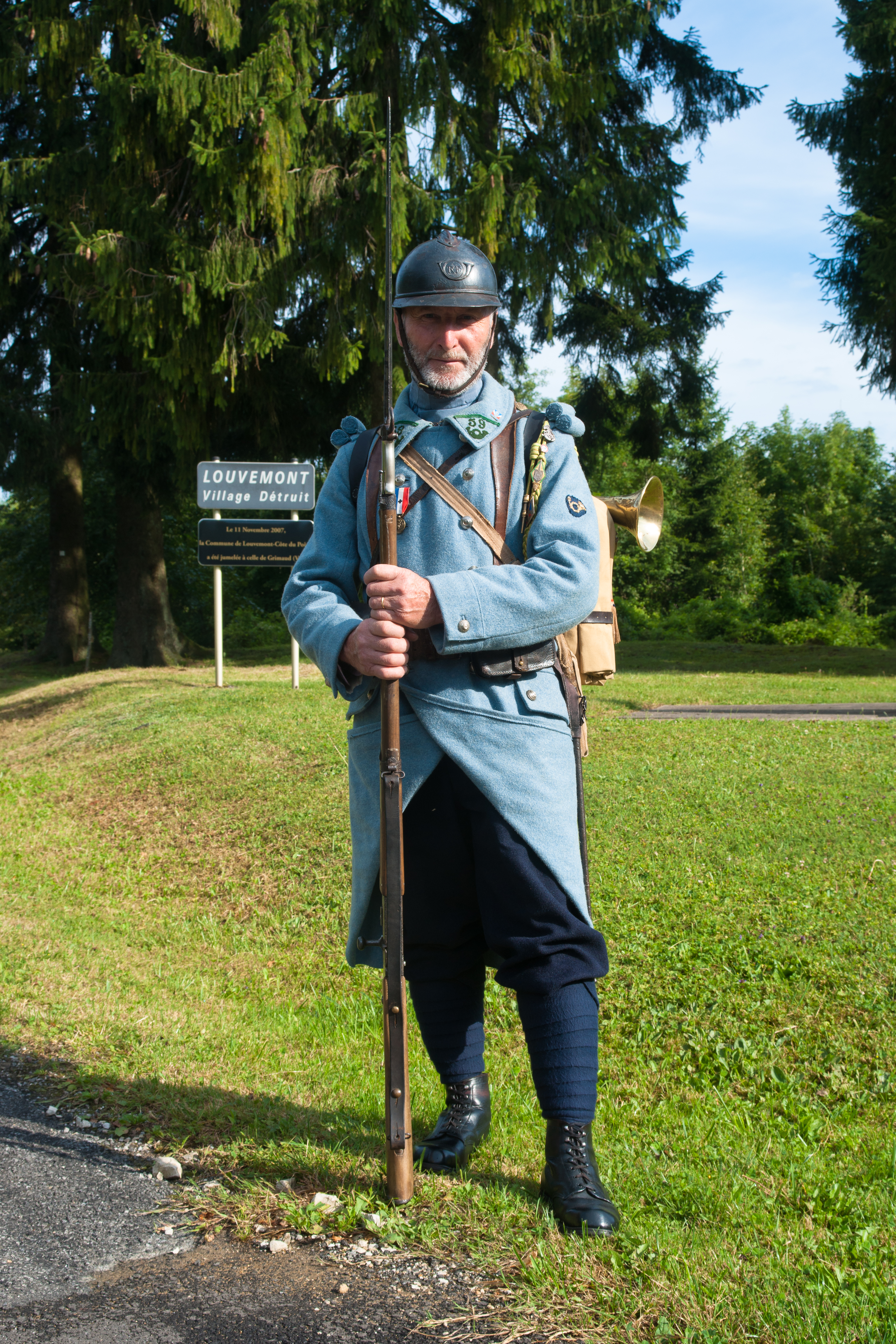 Man with uniforme and equipement of the French Army 59e bataillon de chasseurs à pied (World War I). The photo was taken during a ceremony in august 2012 at Louvemont-Côte-du-Poivre.